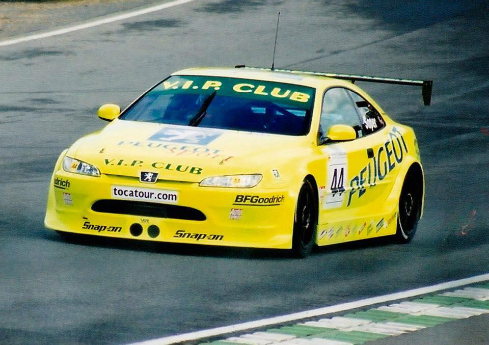 BTCC 2001 Steve Soper Peugeot 406 Coupe